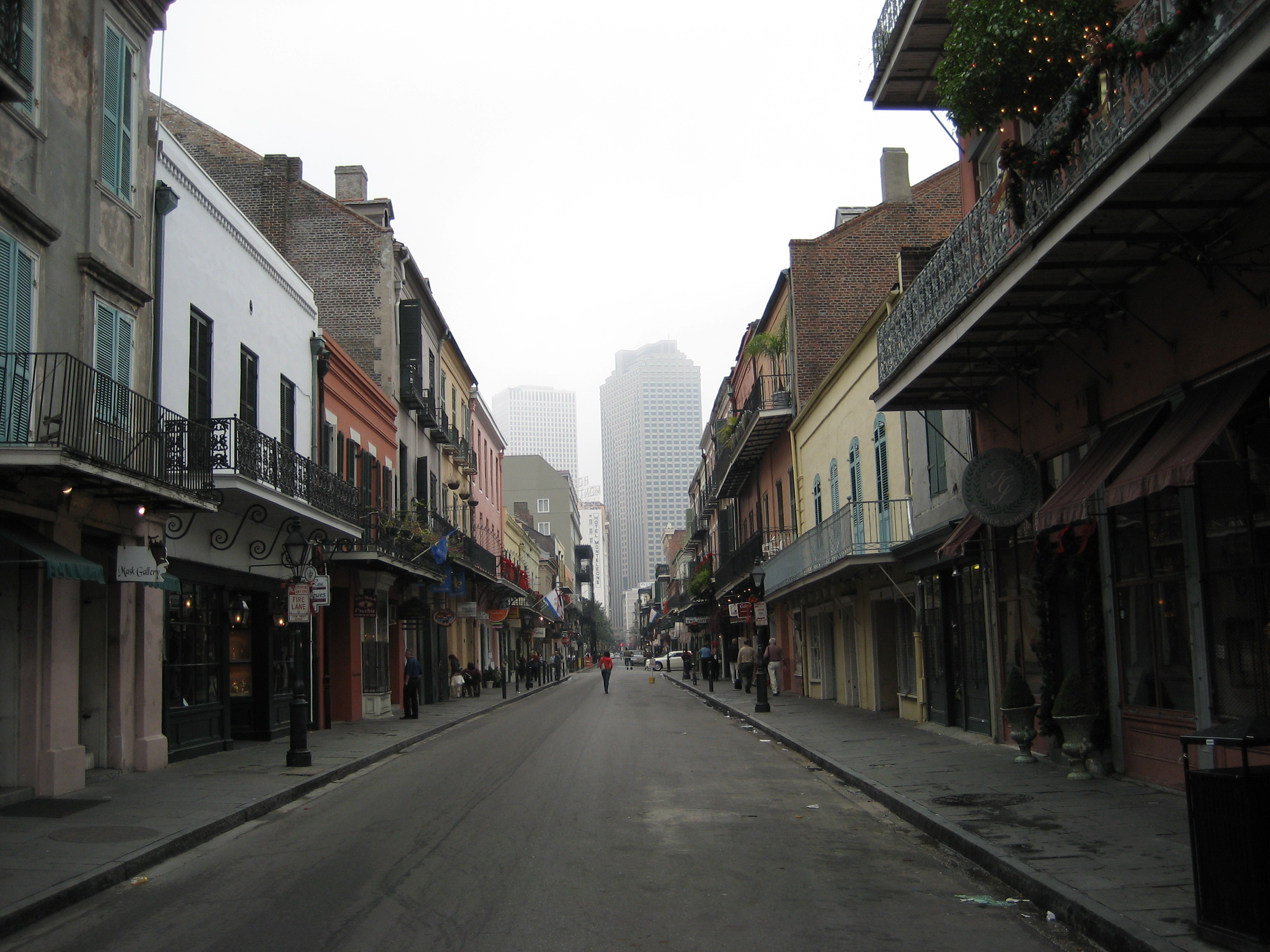 French Quarter, New Orleans. Royal Street, looking up towards the Central Business District, with fog in distance